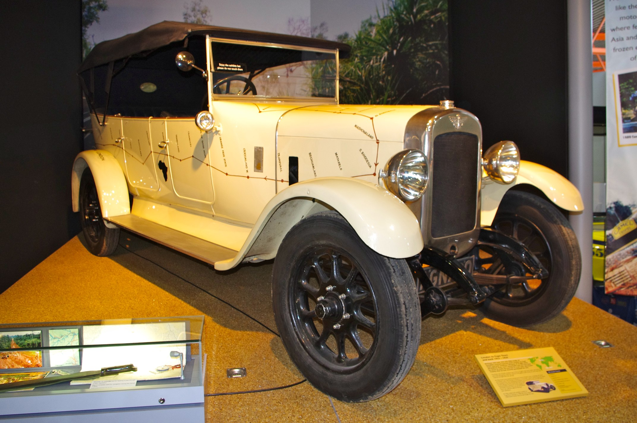 1922 Austin Twenty Used by A.E. Filby in 1932 and 1935 to drive from London to Cape Town and back. National Motor Museum, Beaulieu